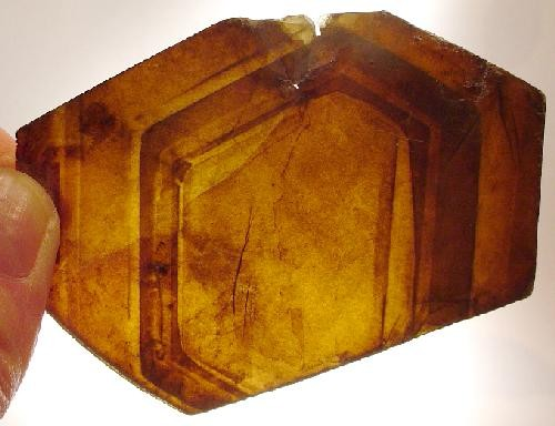 Phlogopite Locality: Templeton, Gatineau TE, Outaouais, Québec, Canada (Locality at ) A VERY FINE, lustrous, zoned, hexagonal phlogopite book from Templeton, Quebec. This thin book is translucent and the zoning is dramatic. Templeton is an UNCOMMON Quebec locality for phlogopite. Ex Carl Davis Collection. 8.3 x 5.9 x 0.1 cm